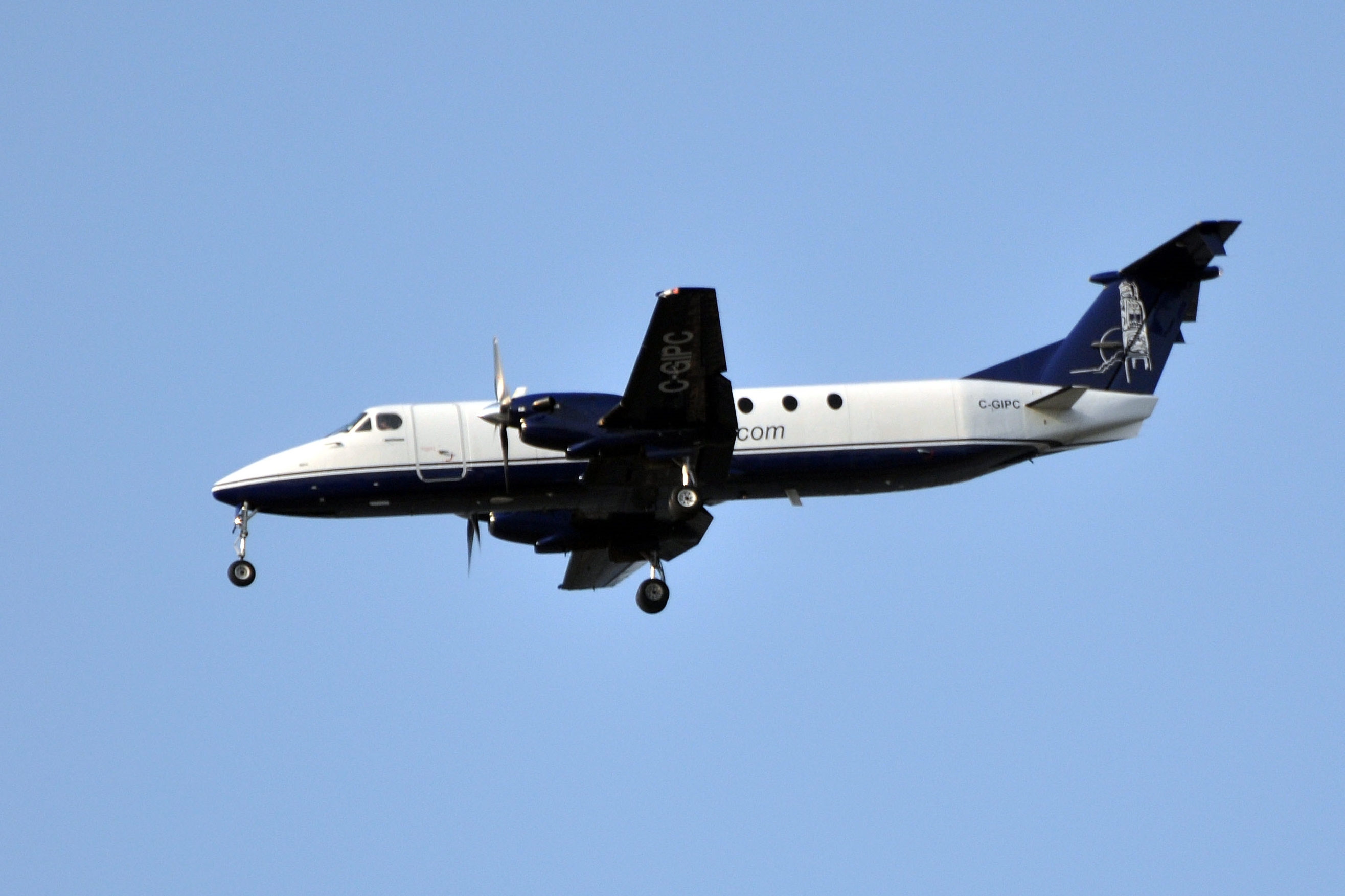 MSN UC-110 Beech 1900C-1 Pacific Coastal Airlines YVR AIRPORT EX MOHAWK AIRLINES / COMMUTAIR / RAYTHEON AIRCRAFT / GP EXPRESS AIRLINES AS N55309 / GP EXPRESS AIRLINES / RAYTHEON AIRCRAFT / COLGAN AIR AS N132GP / COLGAN AIR / RAYTHEON AIRCRAFT AS N210CJ / RAYTHEON AIRCRAFT AS N210CU